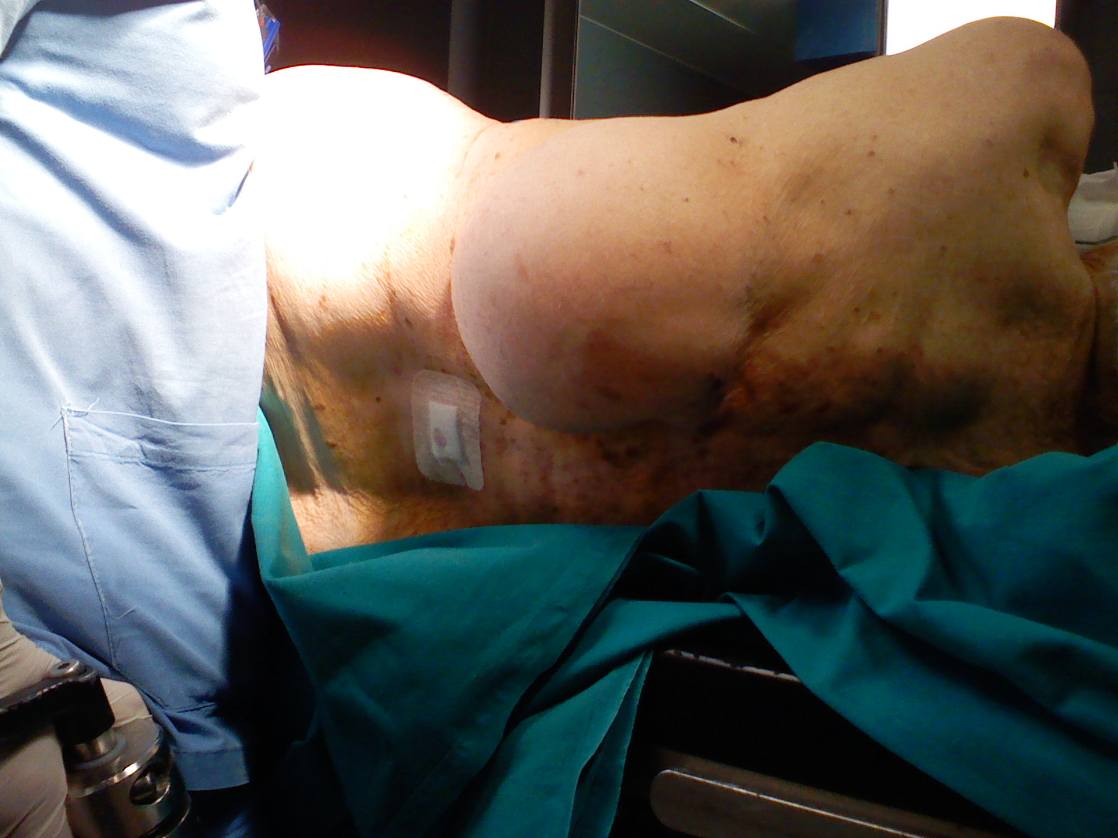 lipoma